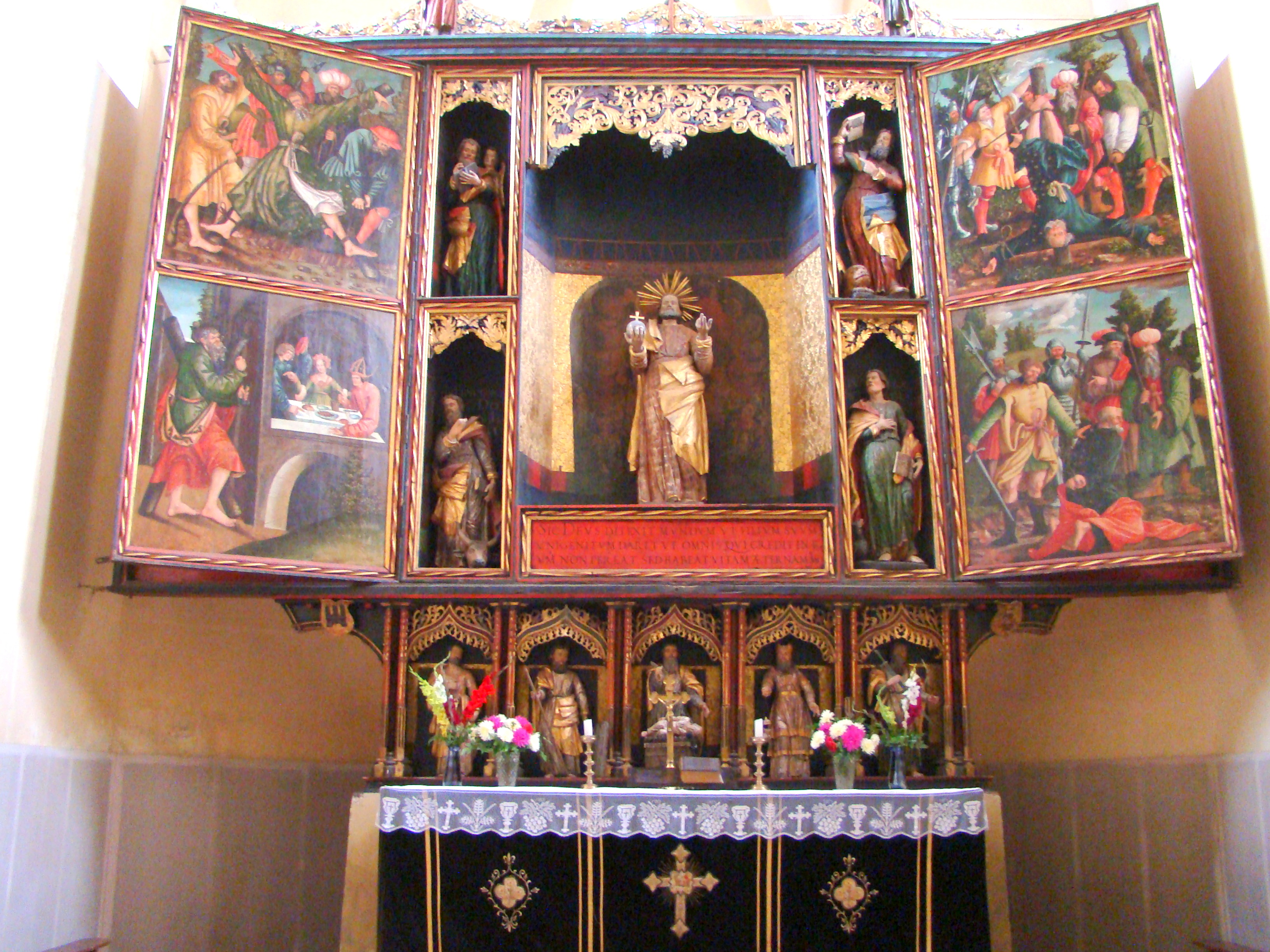 Lutheran church in Hălchiu, Brașov County, Romania